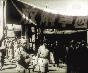 PLA Army entering Xining City. The banner reads "Xining is liberated".